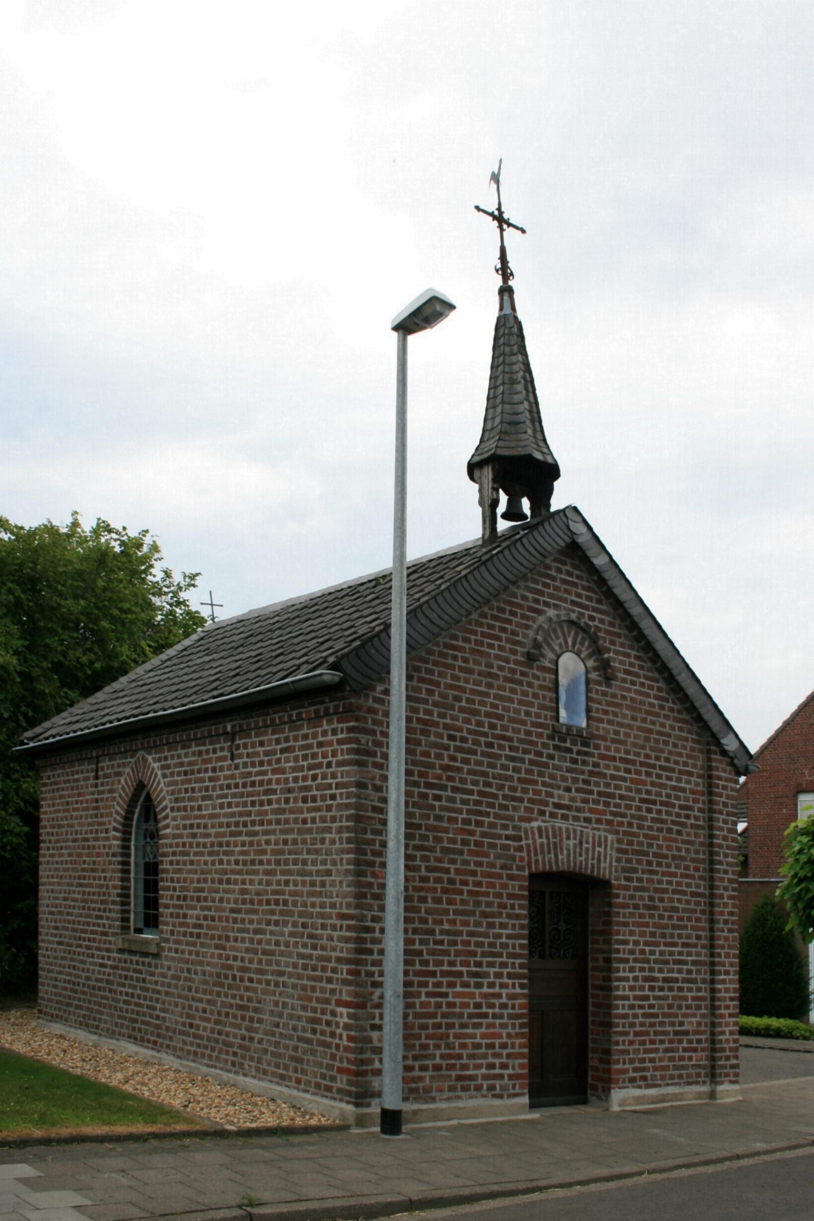 Cultural heritage monument No. G 021 in Mönchengladbach